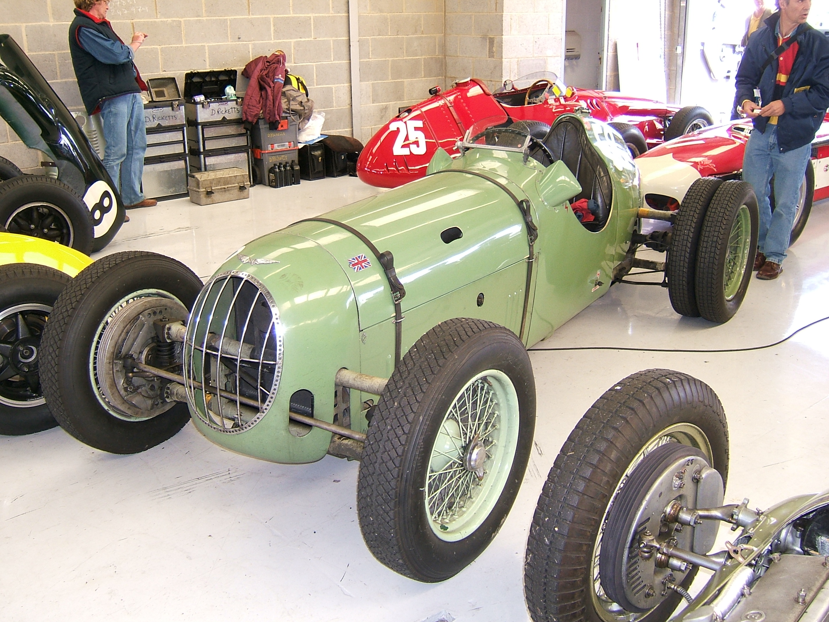 A pre-WWII Alta competition car, c. 1938. Note the twin rear wheels, fitted for extra traction in hillclimb events. Photographed in the pit garages at Silverstone Circuit during the Silverstone Classic meeting, July 2007.